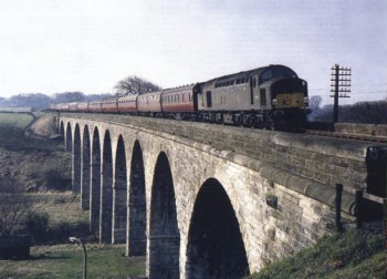 The Viaduct on the approach to Stewarton in Scotland. This picture is intended for the wikipedia article on the town. It is available online at and I have full consent from the individual who took the picture.